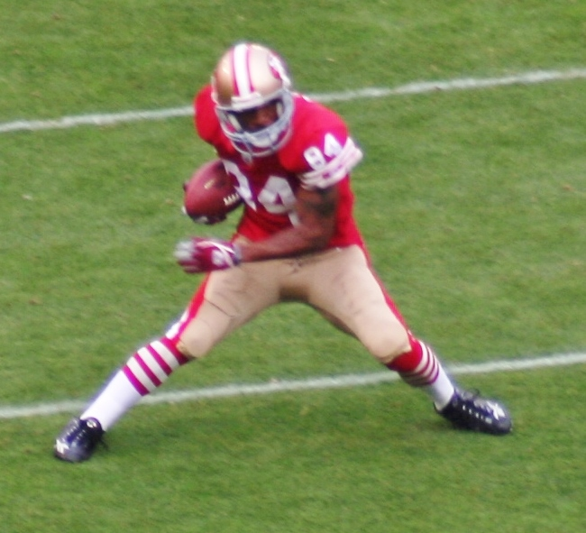 San Francisco 49ers wide receiver/punt returner Michael Lewis returns a punt by the St. Louis Rams.